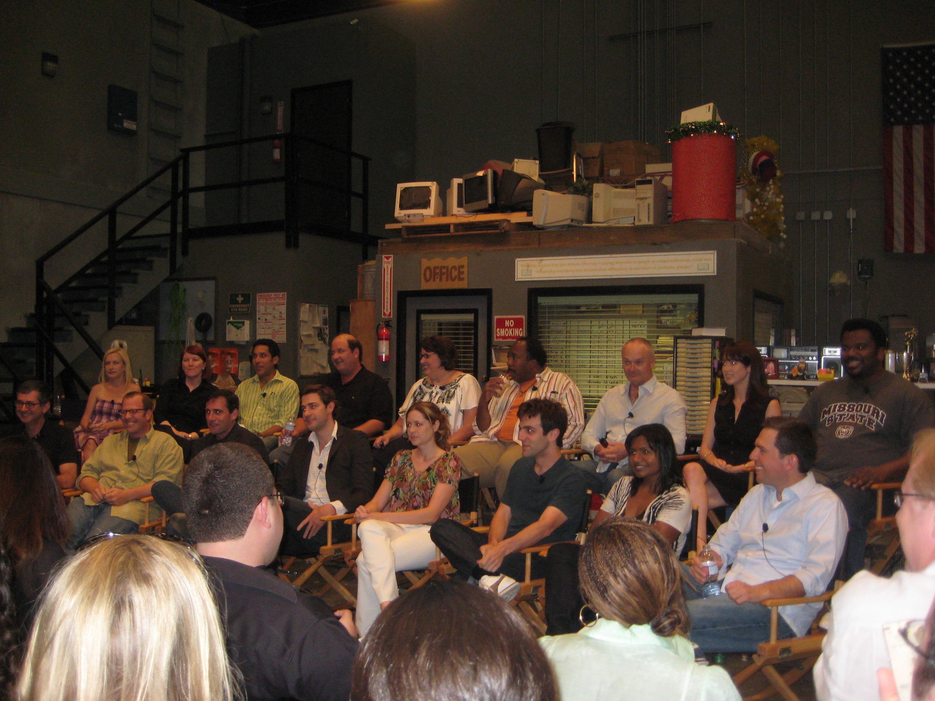 The Office set visit - Los Angeles, Calif. - Aug. 7, 2009